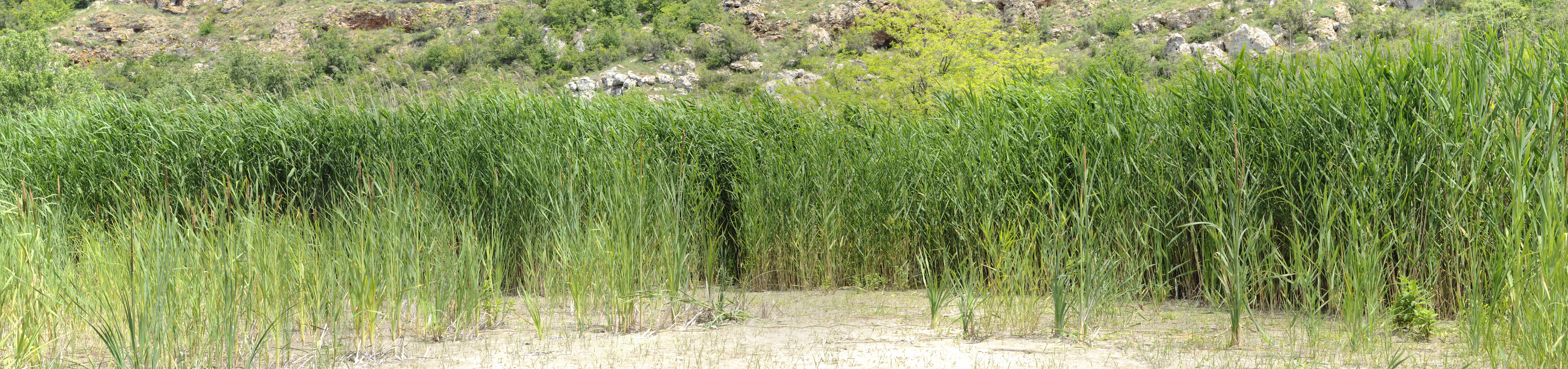 Common reed (Phragmites australis) found at Bolata cove on the Black Sea coast of Bulgaria.